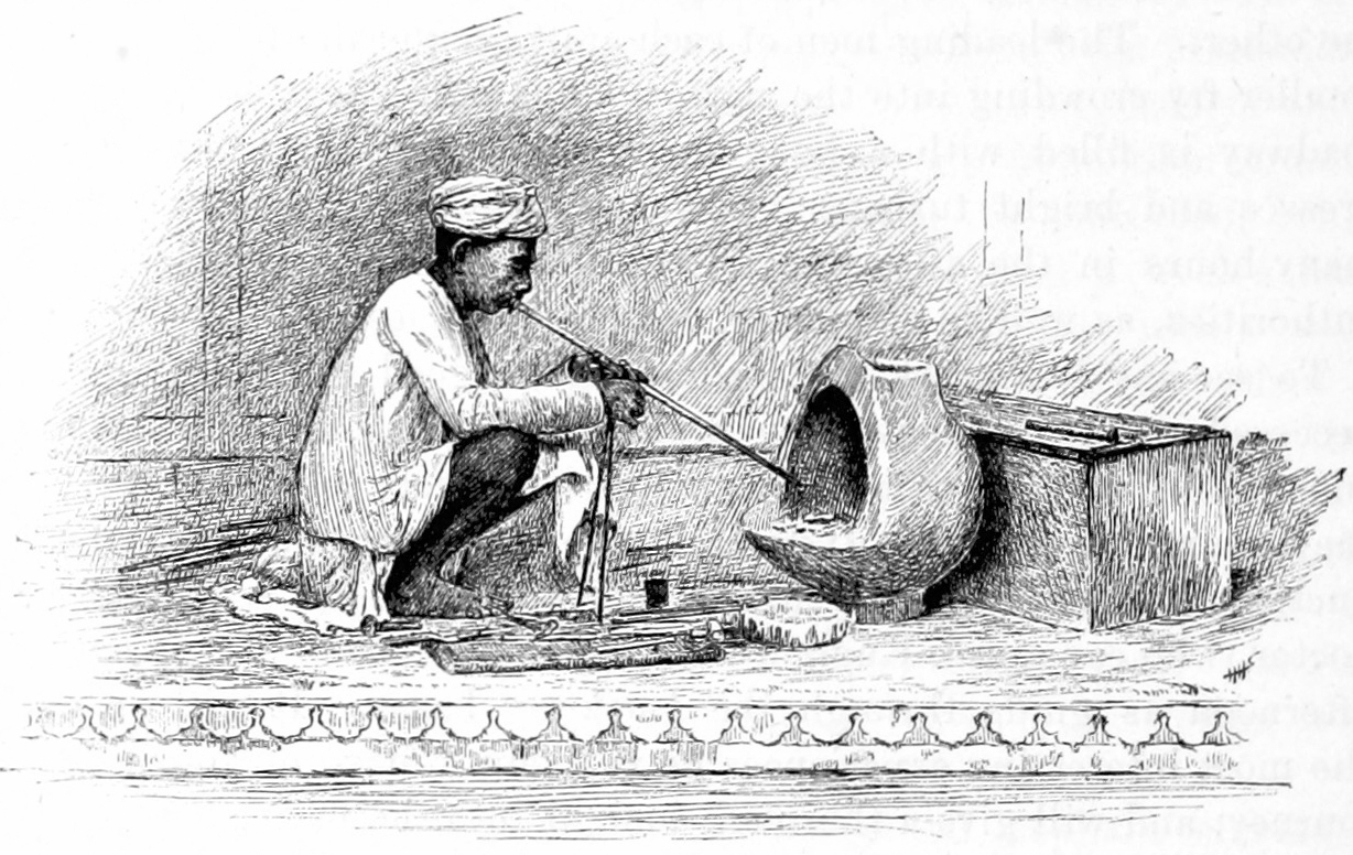 Image taken from: Title: "Picturesque India. A handbook for European travellers, etc. [With maps.]" Author: CAINE, William Sproston. Shelfmark: "British Library HMNTS 010057.ee.7.", "British Library OC ORW.1986.a.2996" Page: 336 Place of Publishing: London Date of Publishing: 1890 Publisher: G. Routledge & Sons Issuance: monographic Identifier: 000567709 Note: The colours, contrast and appearance of these illustrations are unlikely to be true to life. They are derived from scanned images that have been enhanced for machine interpretation and have been altered from their originals. If you wish to purchase a high quality copy of the page that this image is drawn from, please order it here. Please note that you will need to enter details from the above list - such as the shelfmark, the page, the book's volume and so on - when filling out your order. Explore: Find this item in the British Library catalogue, 'Explore'. Open the page in the British Library's itemViewer (page: 336) Download the PDF for this book Click here to see all the illustrations in this book and click here to browse other illustrations published in books in the same year. Please click on the tags shown on the right-hand side for other ways to browse the illustrations.